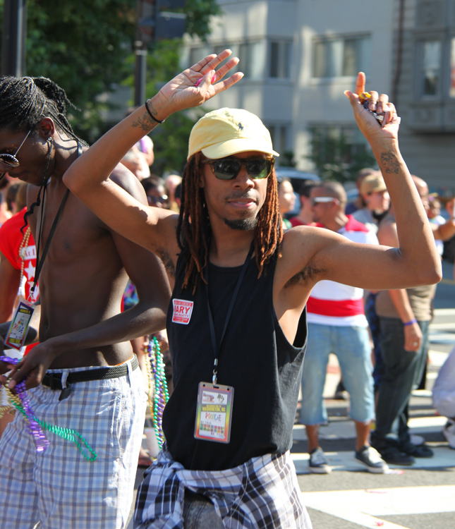 Oh yes, Black is Beautiful! At the Capital Pride parade near Dupont Circle in Washington, D.C., in the United States on June 9, 2012.